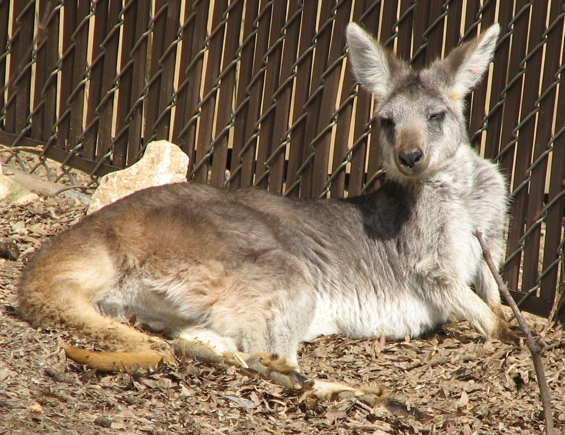 Wallaroo Female - Macropus robustus